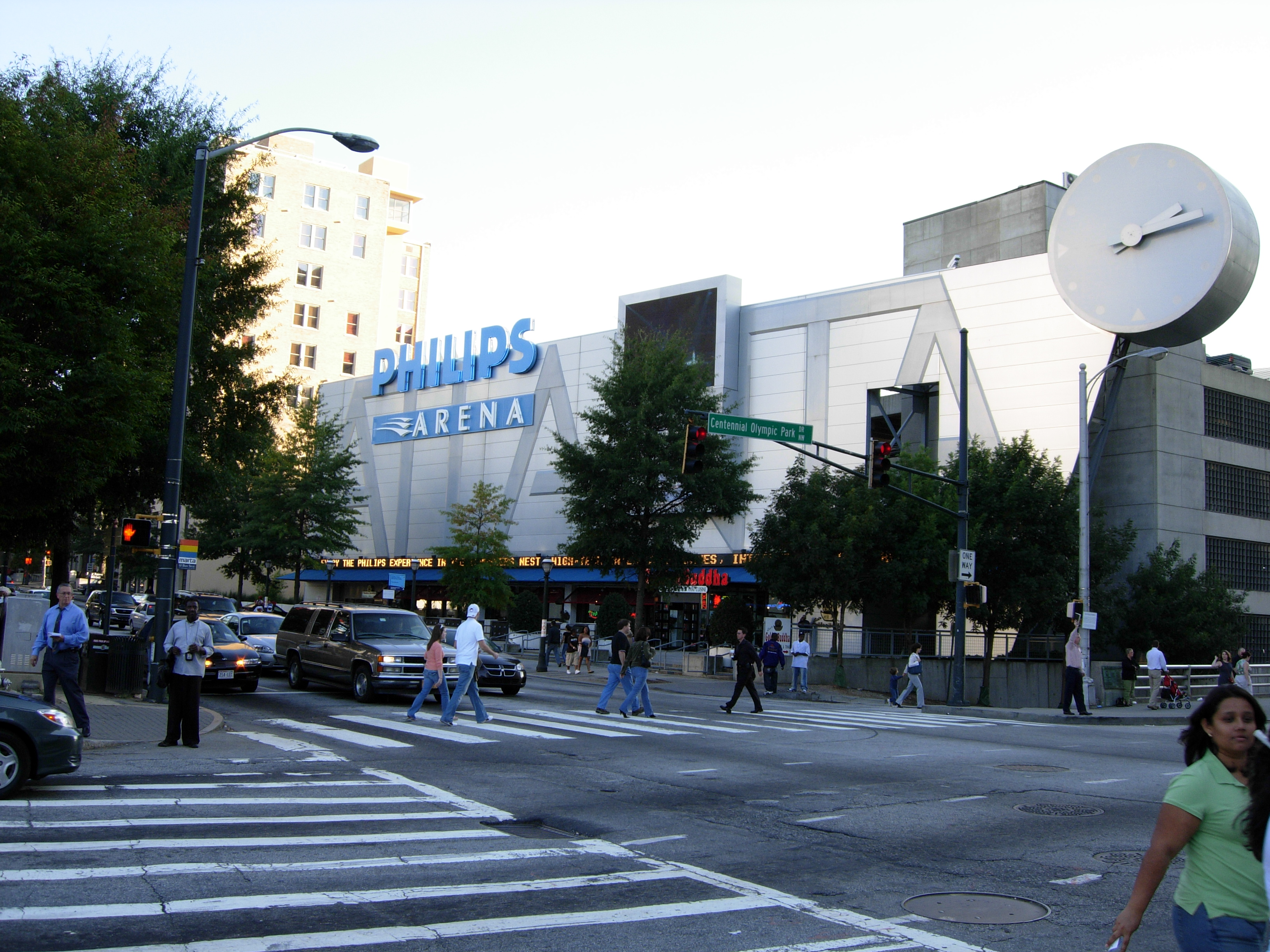 Philips Arena Parking Deck in Atlanta, Georgia